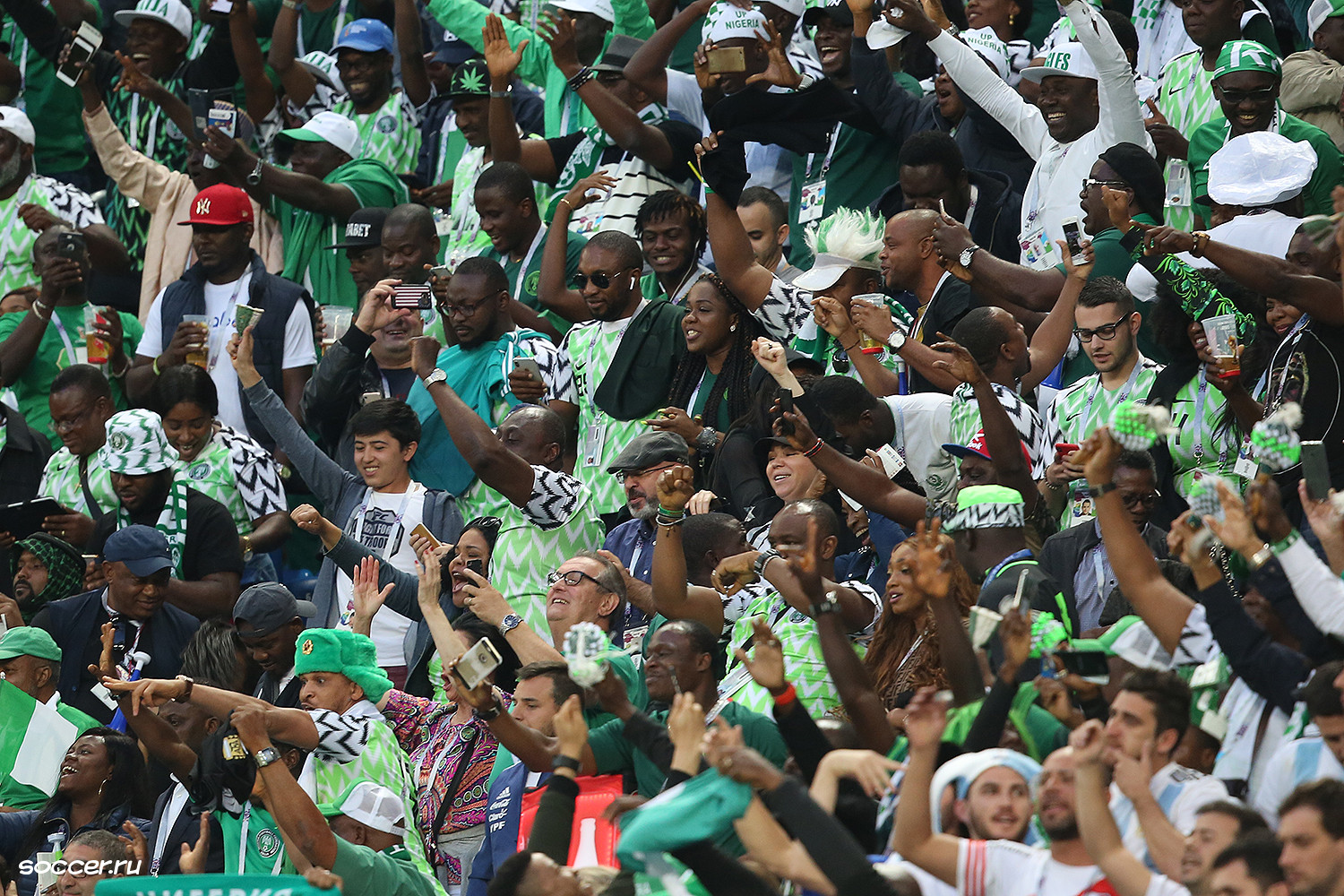 Nigeria vs Argentina match